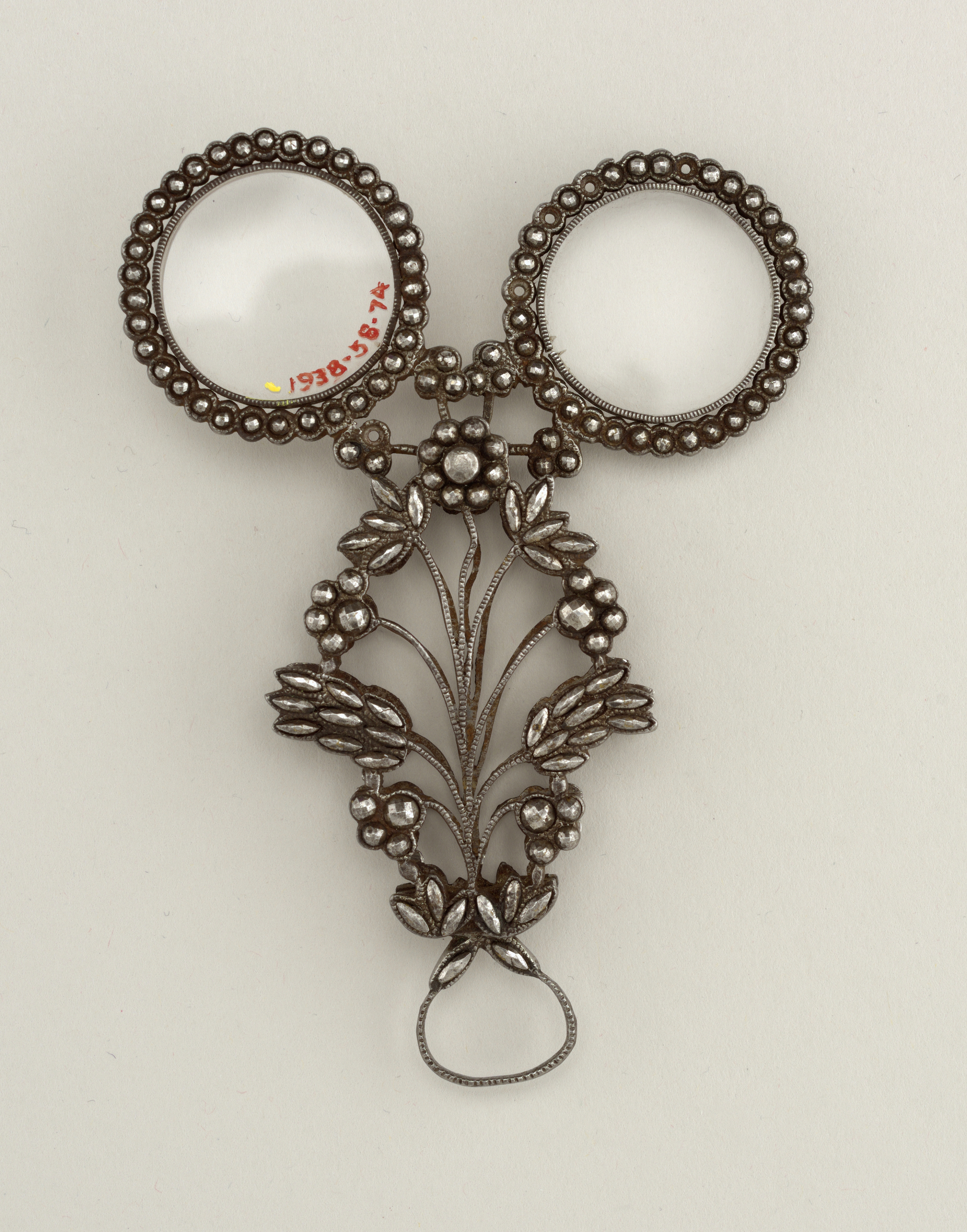 Two glasses surrounded by cut steel facets, hinged so that they will fit between ornaments in designs of flower and leaf sprays with a ring of sprays at the bottom.